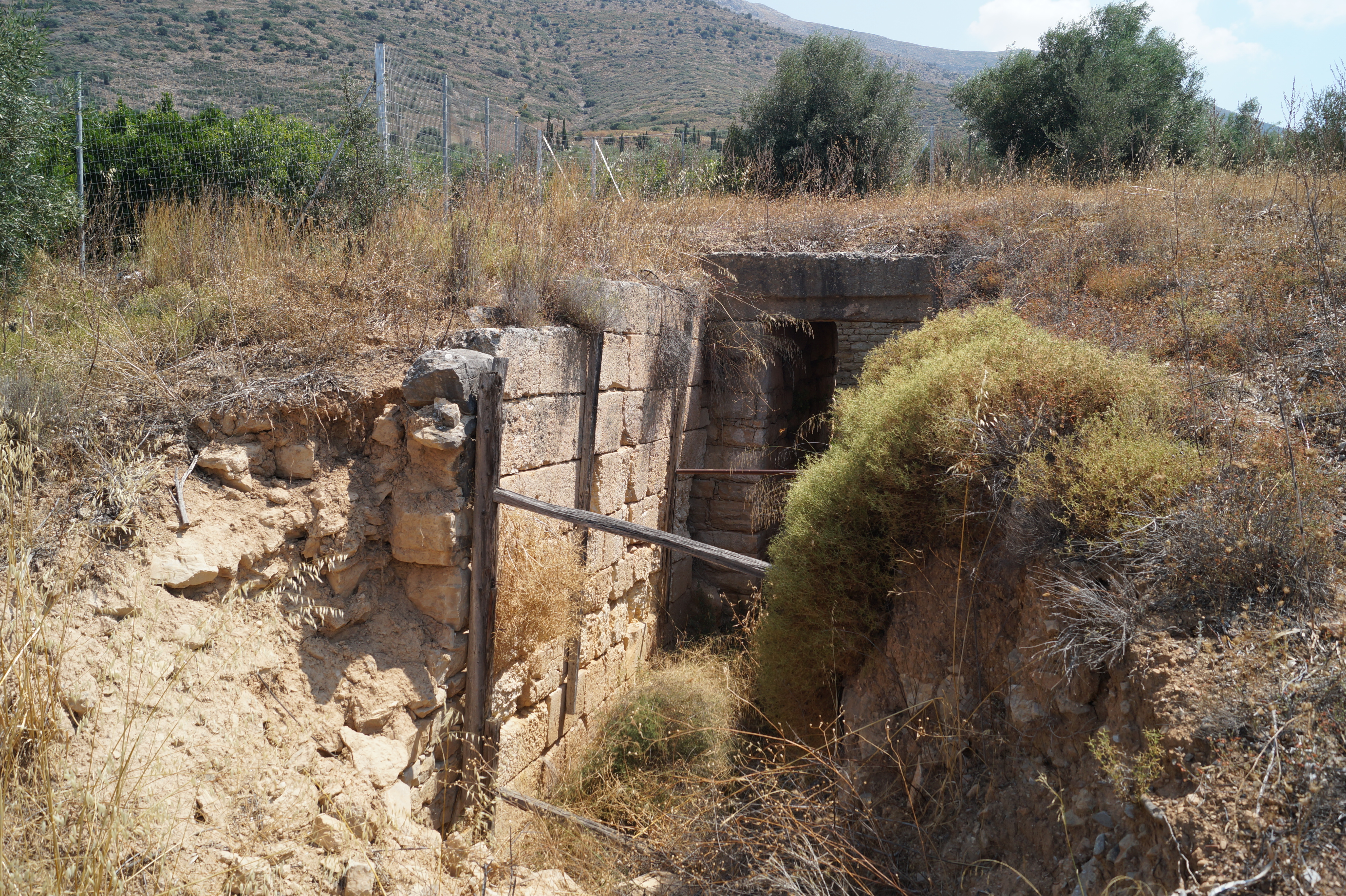 Prosymna, Argolis, Greece: Left wall of the dromos and doorway of the Prosymna Tholos.